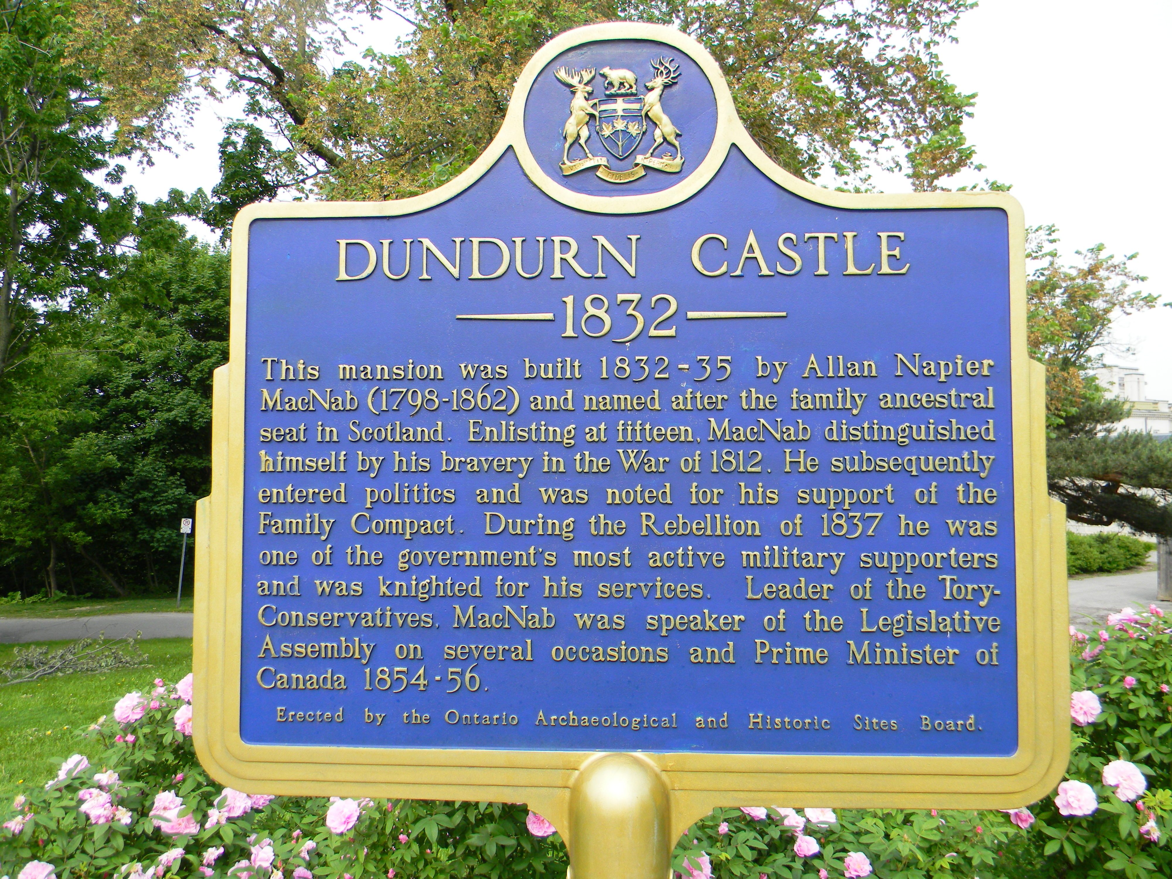 Dundurn Castle plaque in Hamilton Ontario Canada